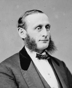 Hervey C. Calkin, New York Congressman